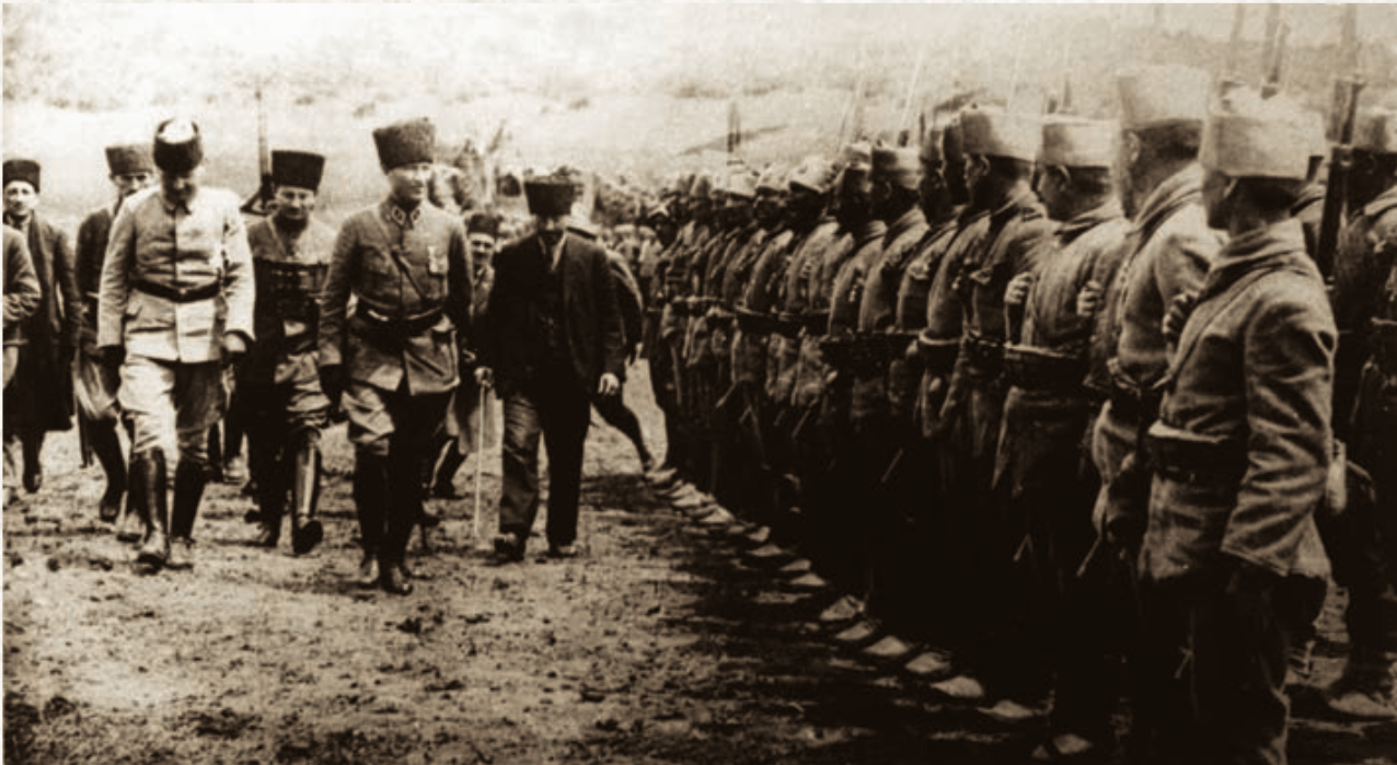 Kemal Atatürk (or alternatively written as Kamâl Atatürk, Mustafa Kemal Pasha until 1934, commonly referred to as Mustafa Kemal Atatürk; 1881 – 10 November 1938) was a Turkish field marshal, revolutionary statesman, author, and the founding father of the Republic of Turkey, serving as its first President from 1923 until his death in 1938. He undertook sweeping progressive reforms, which modernized Turkey into a secular, industrial nation. Ideologically a secularist and nationalist, his policies and theories became known as Kemalism. Due to his military and political accomplishments, Atatürk is regarded as one of the most important political leaders of the 20th century.